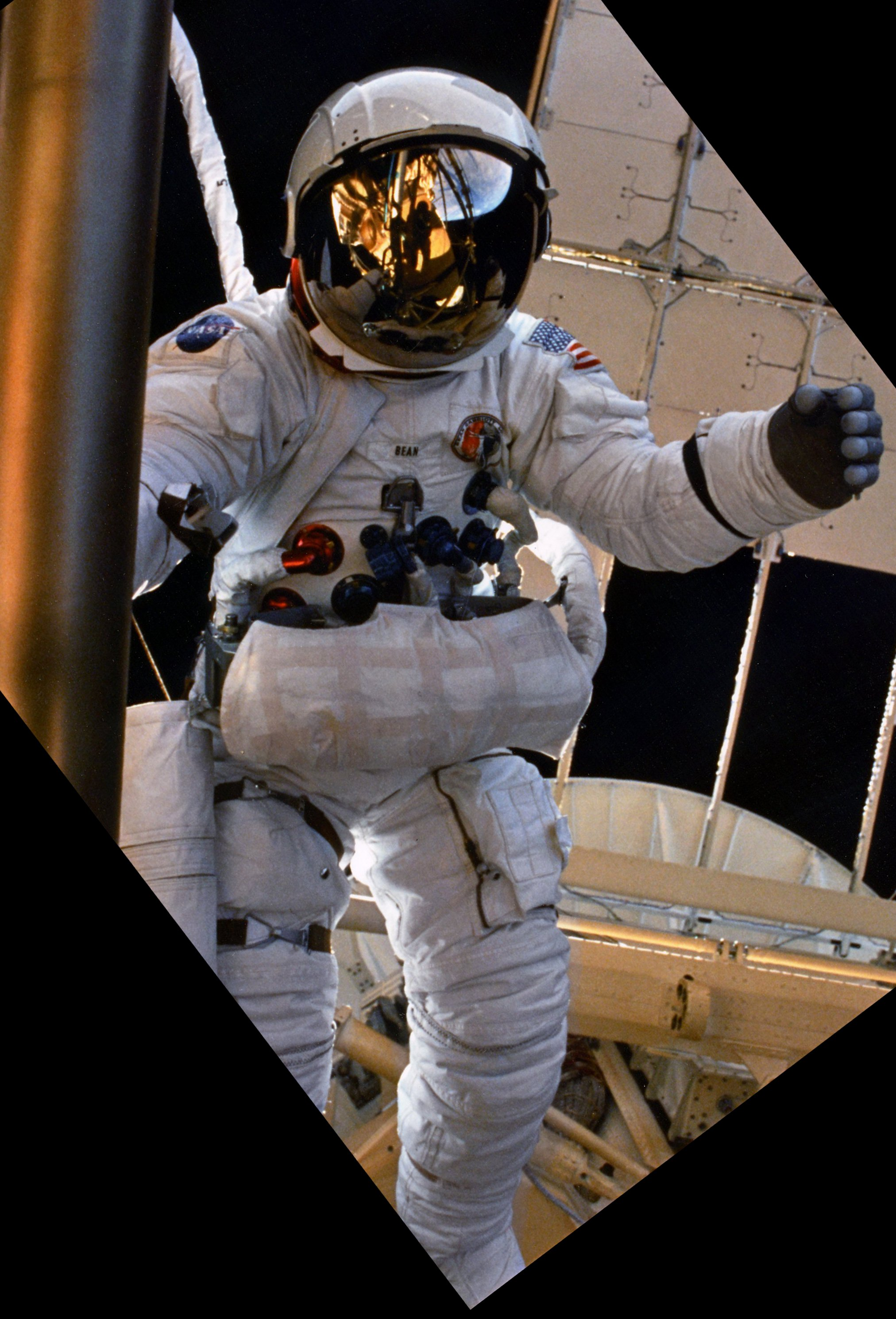 Alan Bean during Skylab 3 EVA. This was Alan Bean's only EVA on the skylab 3 mission.